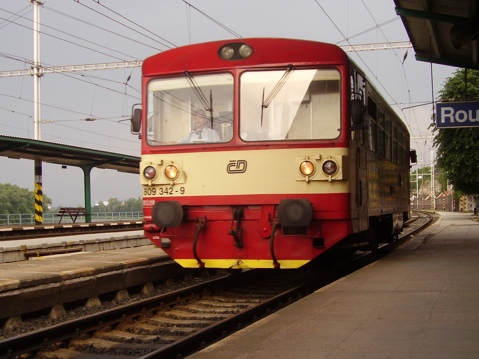 Diesel multiple unit 809 in Roudnice nad Labem